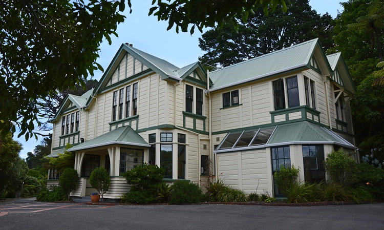 The front of Hutt Minoh Friendship House